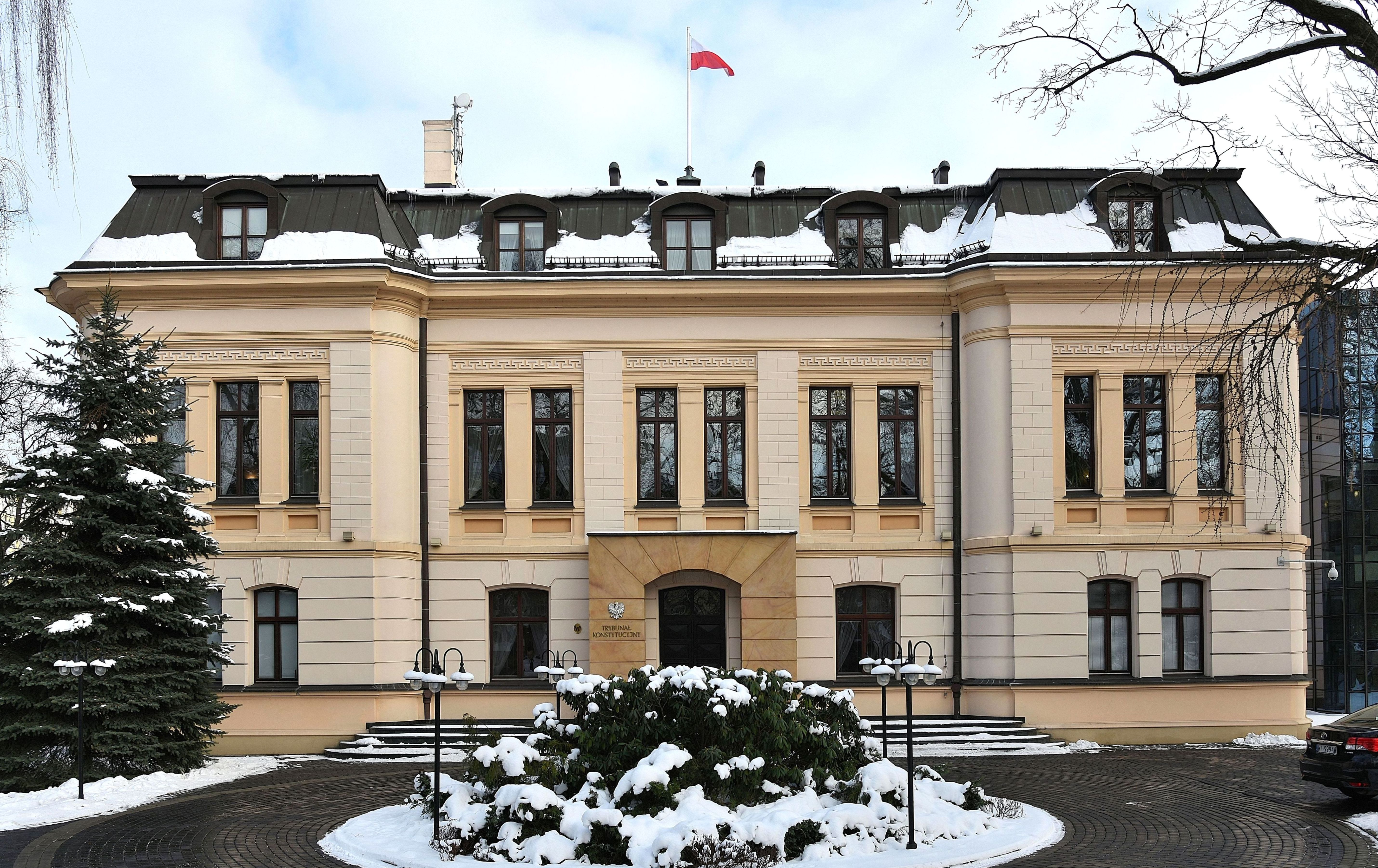 Seat of the Polish Constitutional Tribunal